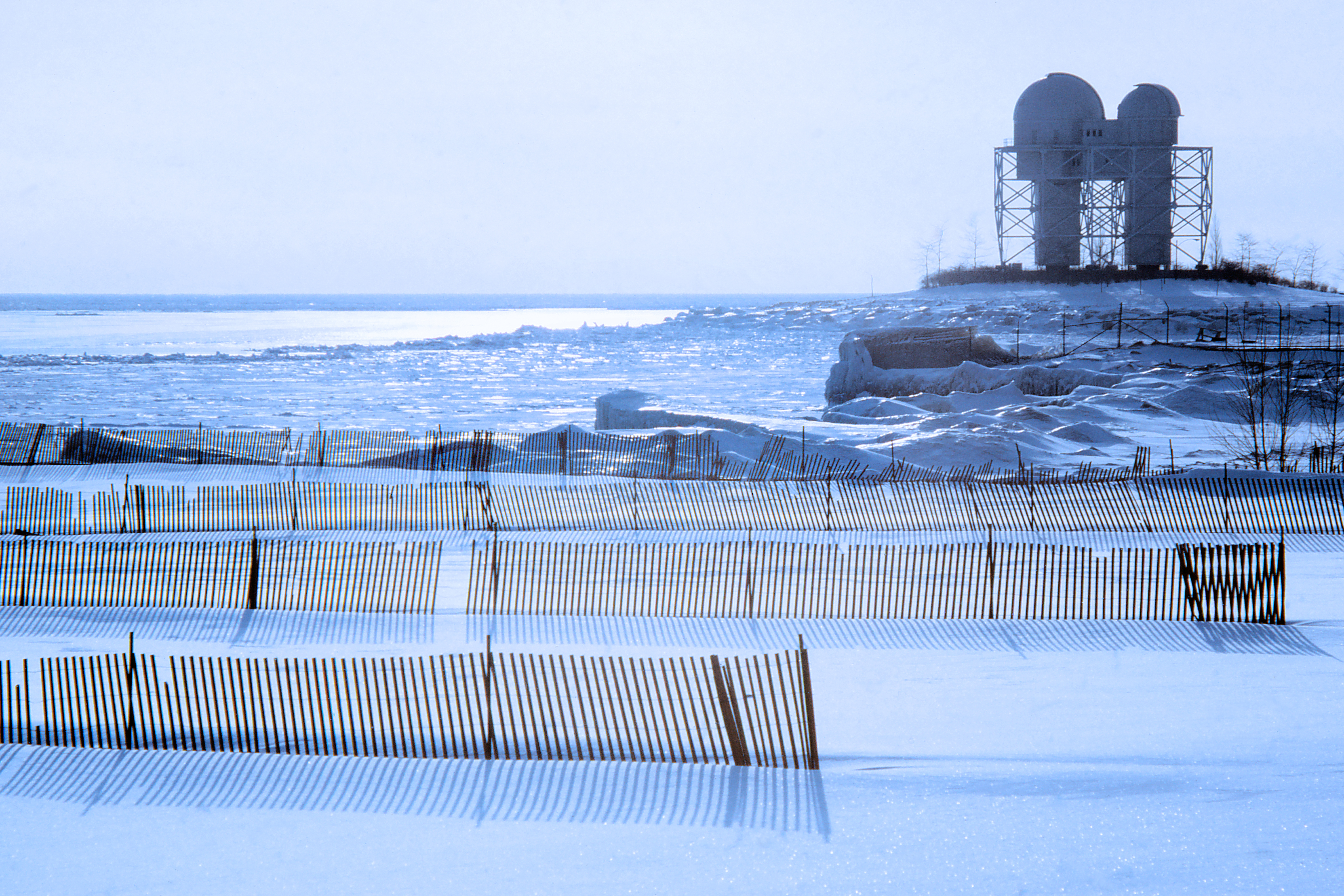 Looking south from North Beach, toward Lindheimer Astrophysical Research Center, Northwestern University, Evanston, Illinois, USA. (Digitized from a Kodachrome taken in 1974)